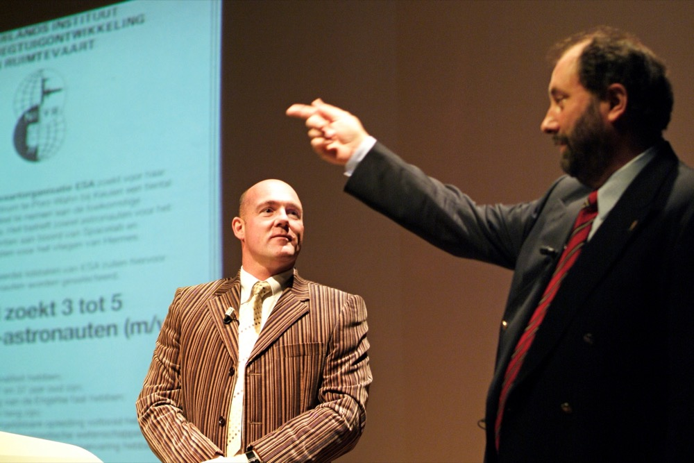 Astronaut André Kuipers and professor Gerrit Kroesen (right) during a lecture at Eindhoven University of Technology, after the Delta Mission.